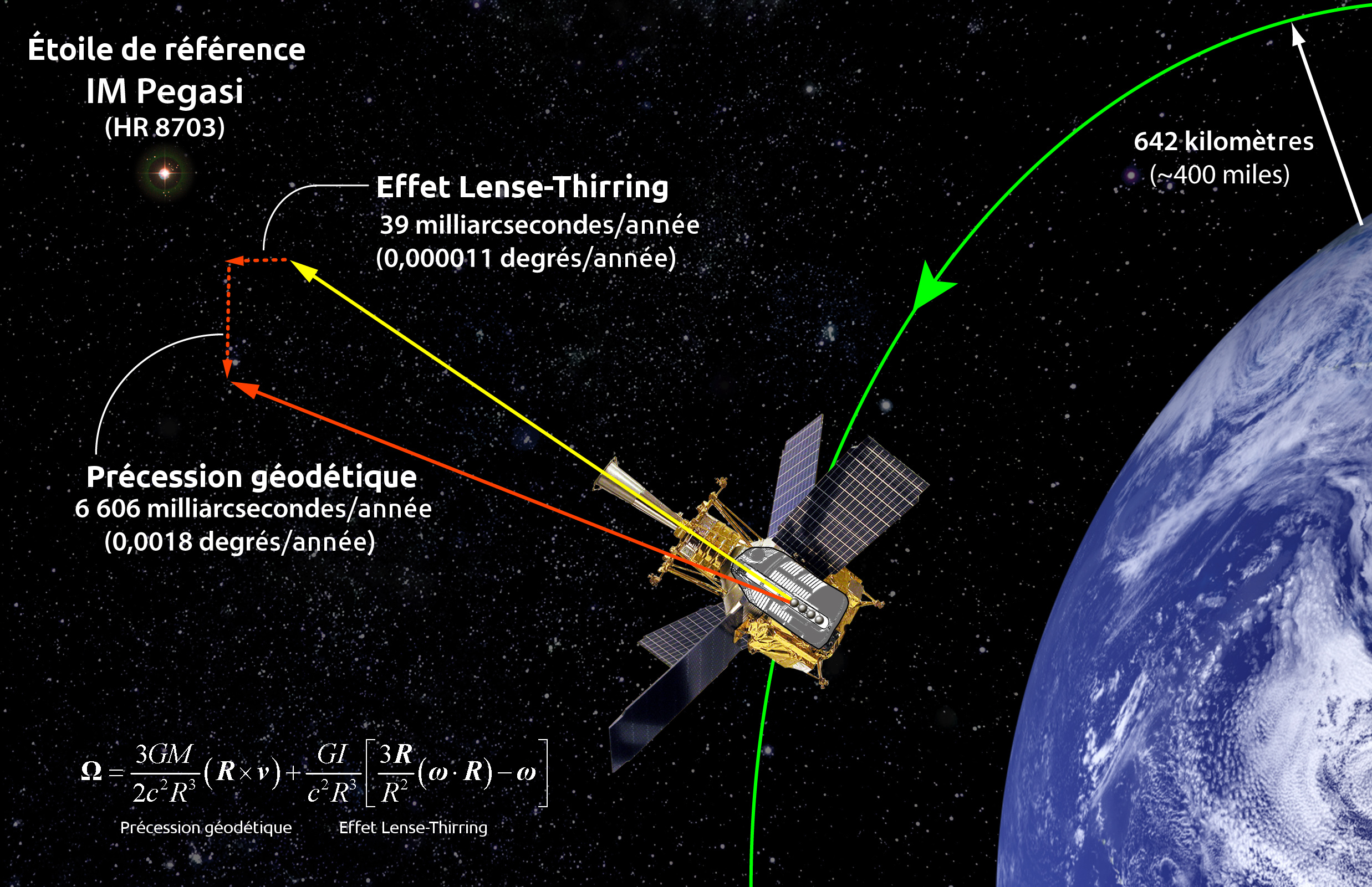 Diagram regarding the confirmation of Gravitoelectromagnetism by Gravity Probe B.